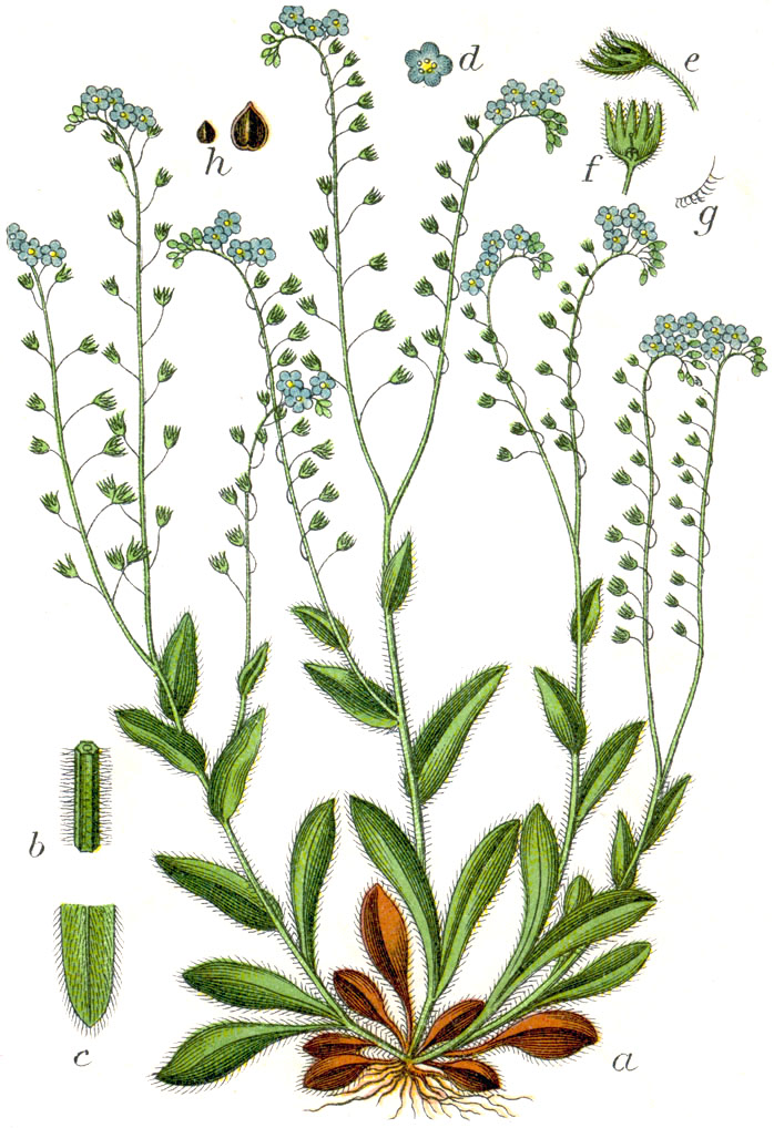 Myosotis sylvatica Ehrh. ex Hoffm. Original Caption Wald-Vergissmeinnicht, Myosotis silvatica